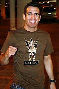 MMA fighter Kenny Florian wearing a Ranger Up "Geardo" shirt